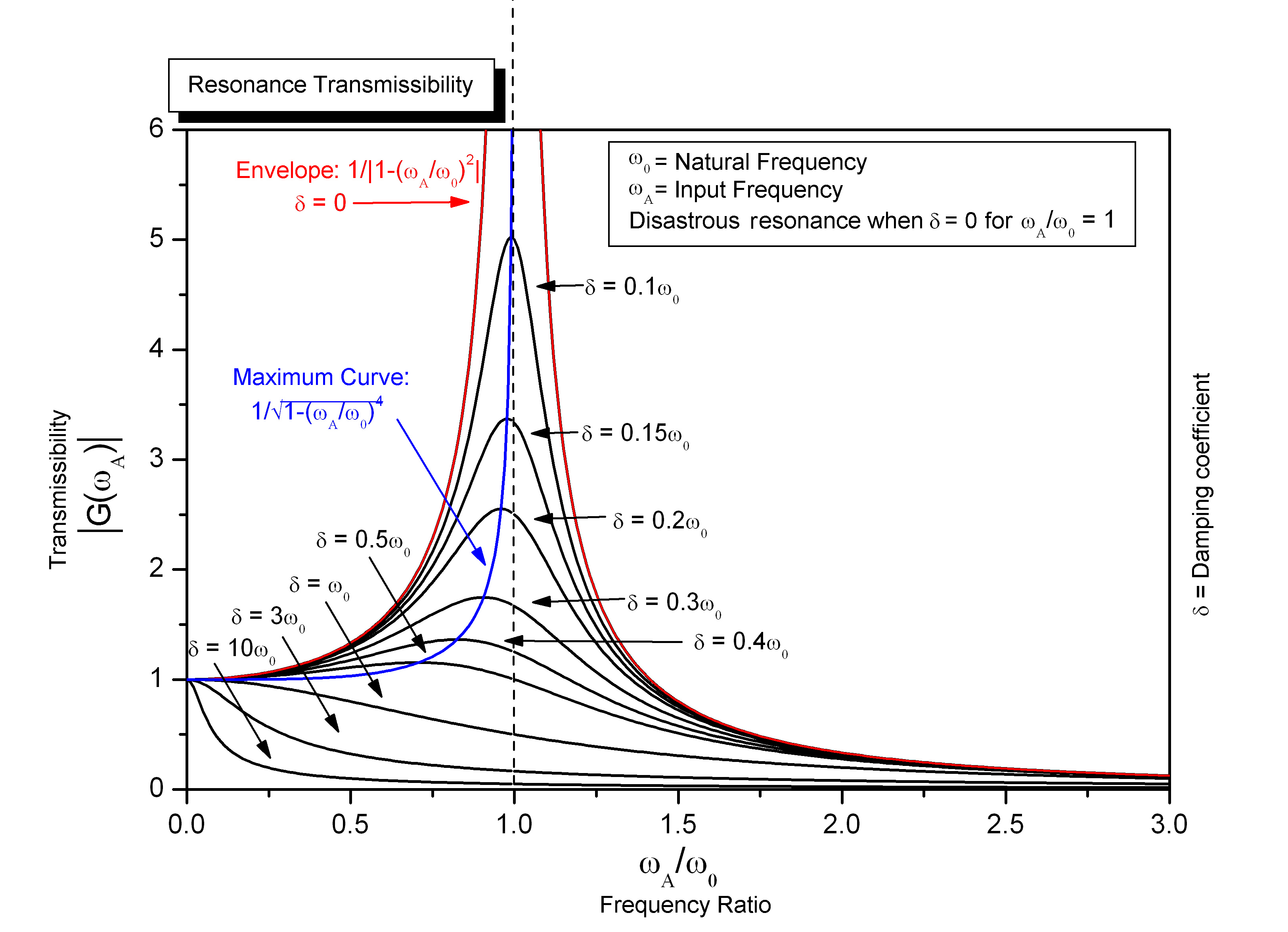 "Resonance effect shown for various input frequencies and damping coefficients."